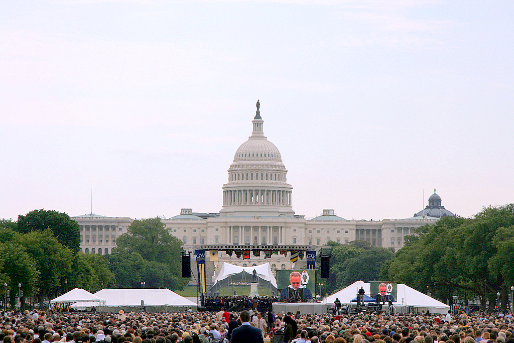 The photo depicts a graduation ceremony for The George Washington University on the National Mall in Washington on May 20, 2007. Wolf Blitzer is a graduation speaker in front of the Capitol.